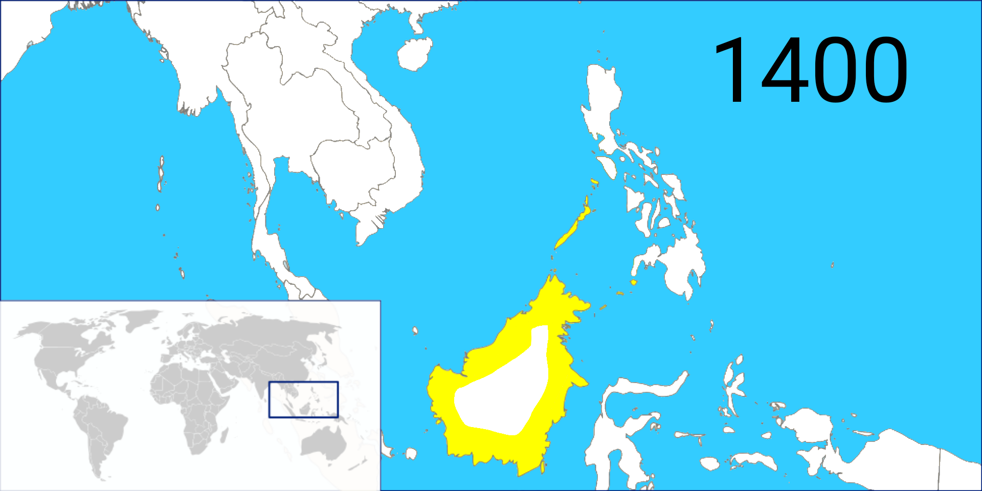 Brunei territories in 1400.